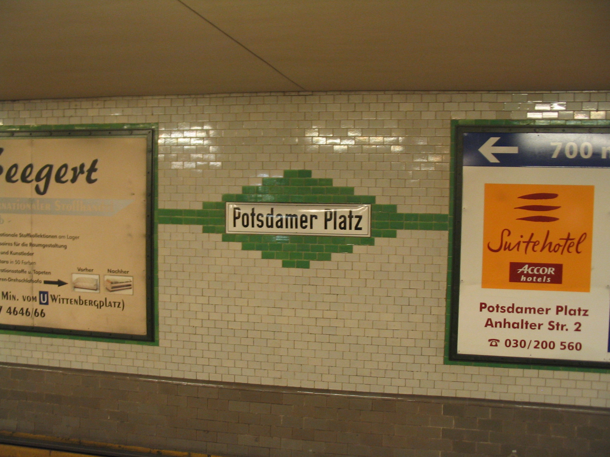 Platform of Potsdamer Platz station, Berlin U-Bahn